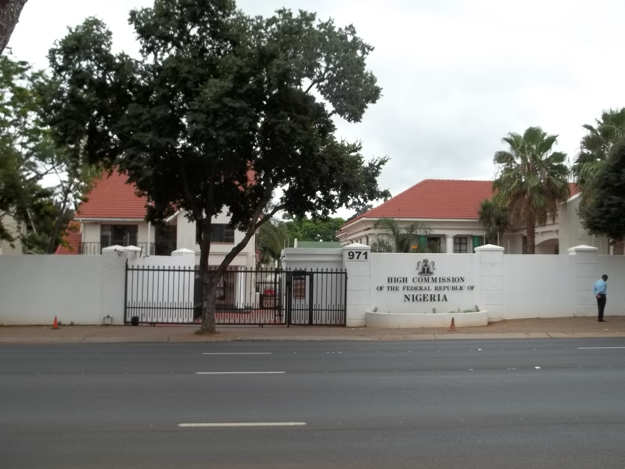 NG in ZA